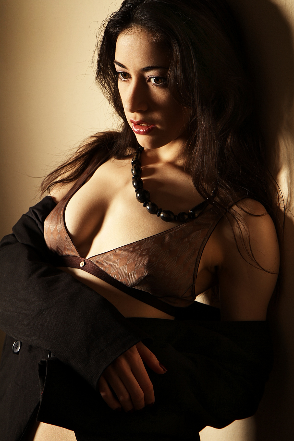 Photographer: Thomas Schmidt (netAction) Model: Managara Blazer: (Berlin) Top: (Berlin)